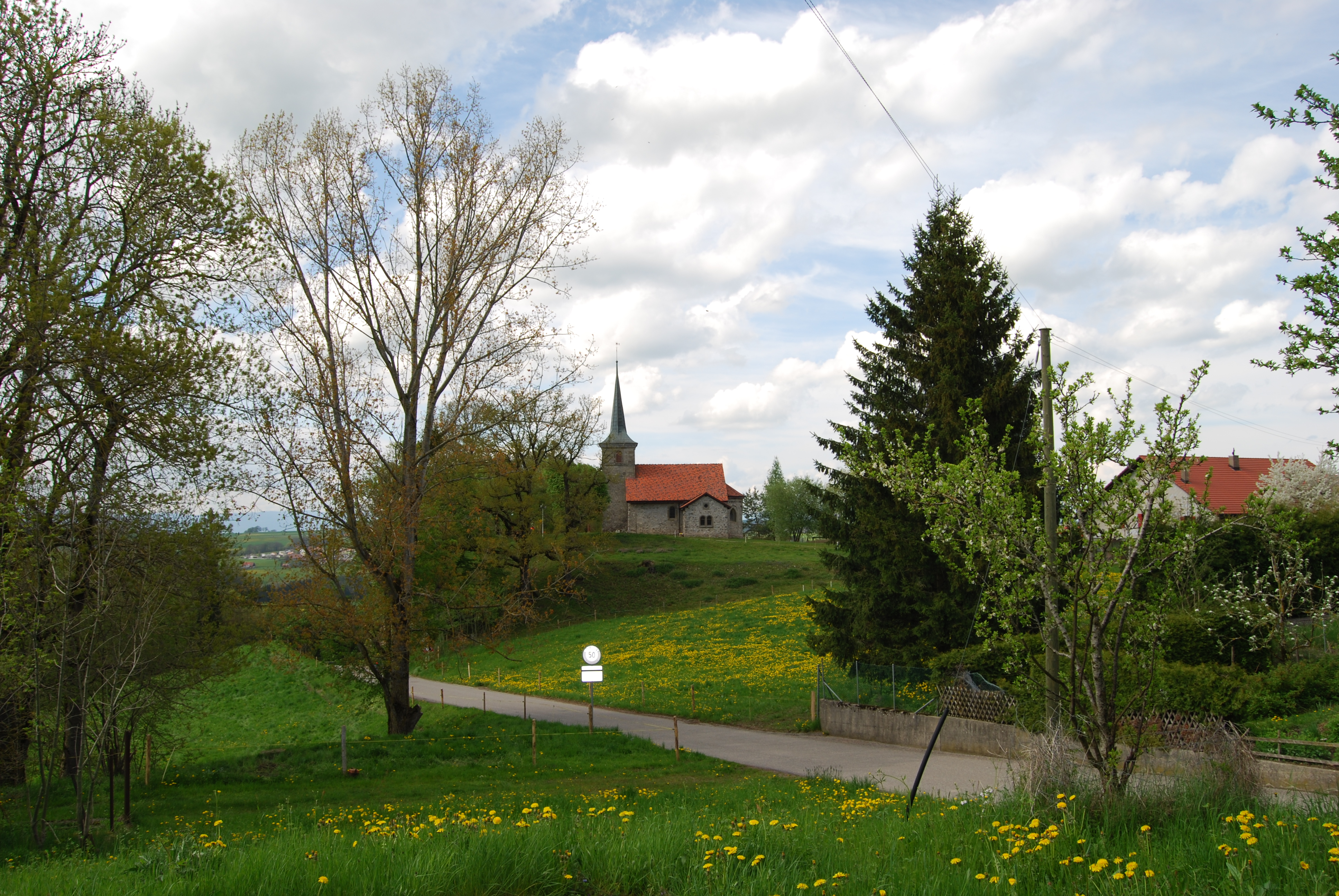 Chapel Rueyres-Saint-Laurent, municipality Le Glèbe, canton of Fribourg, Switzerland